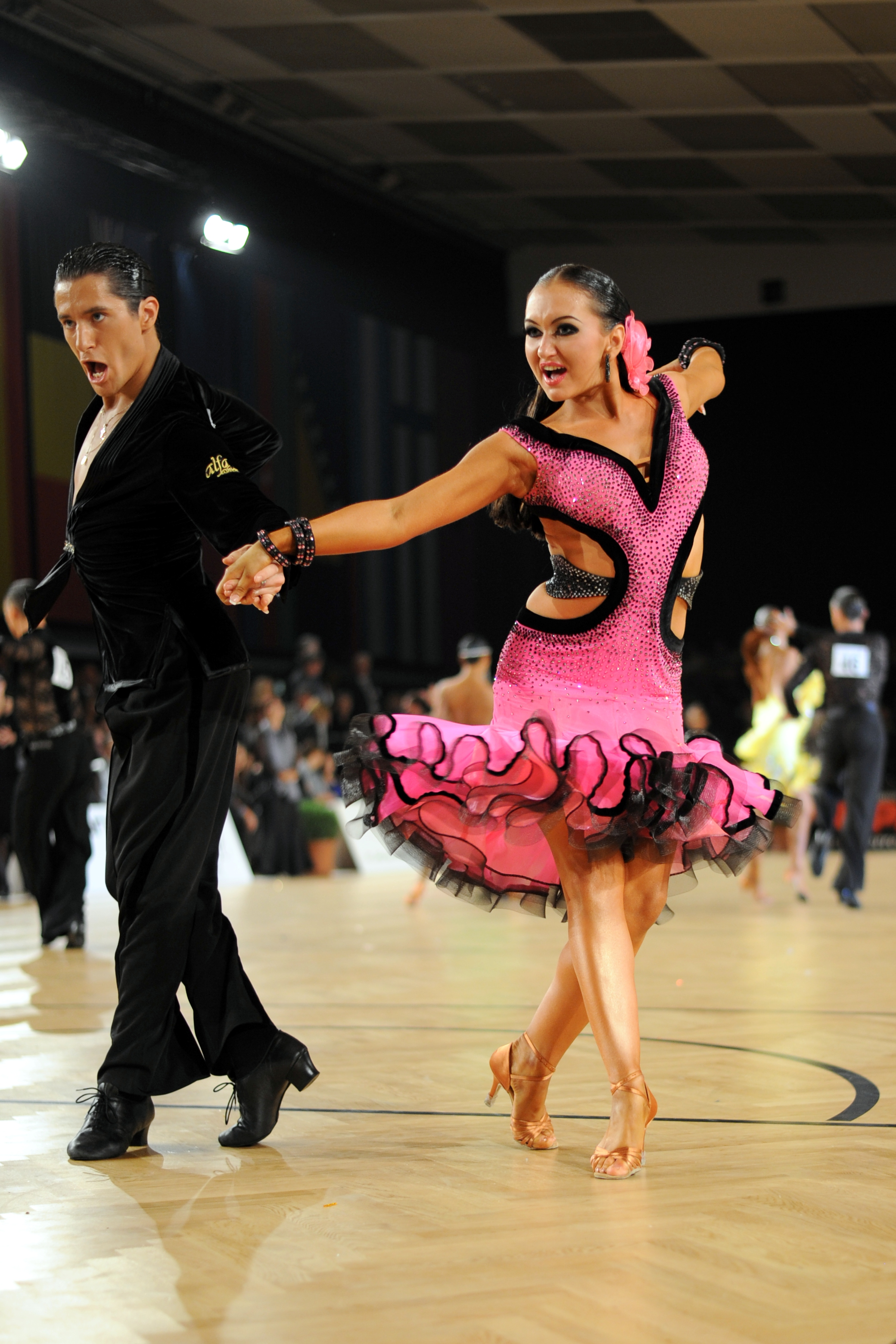 Austrian Open Championships Vienna, 2012 WDSF World Dancesport Championships Latin 16.-18. November 2012 The making of this work was supported by Wikimedia Austria. For other files made with the support of Wikimedia Austria, please see the category Supported by Wikimedia Österreich. Personality rights warning Although this work is freely licensed or in the public domain, the person(s) shown may have rights that legally restrict certain re-uses unless those depicted consent to such uses. In these cases, a model release or other evidence of consent could protect you from infringement claims.